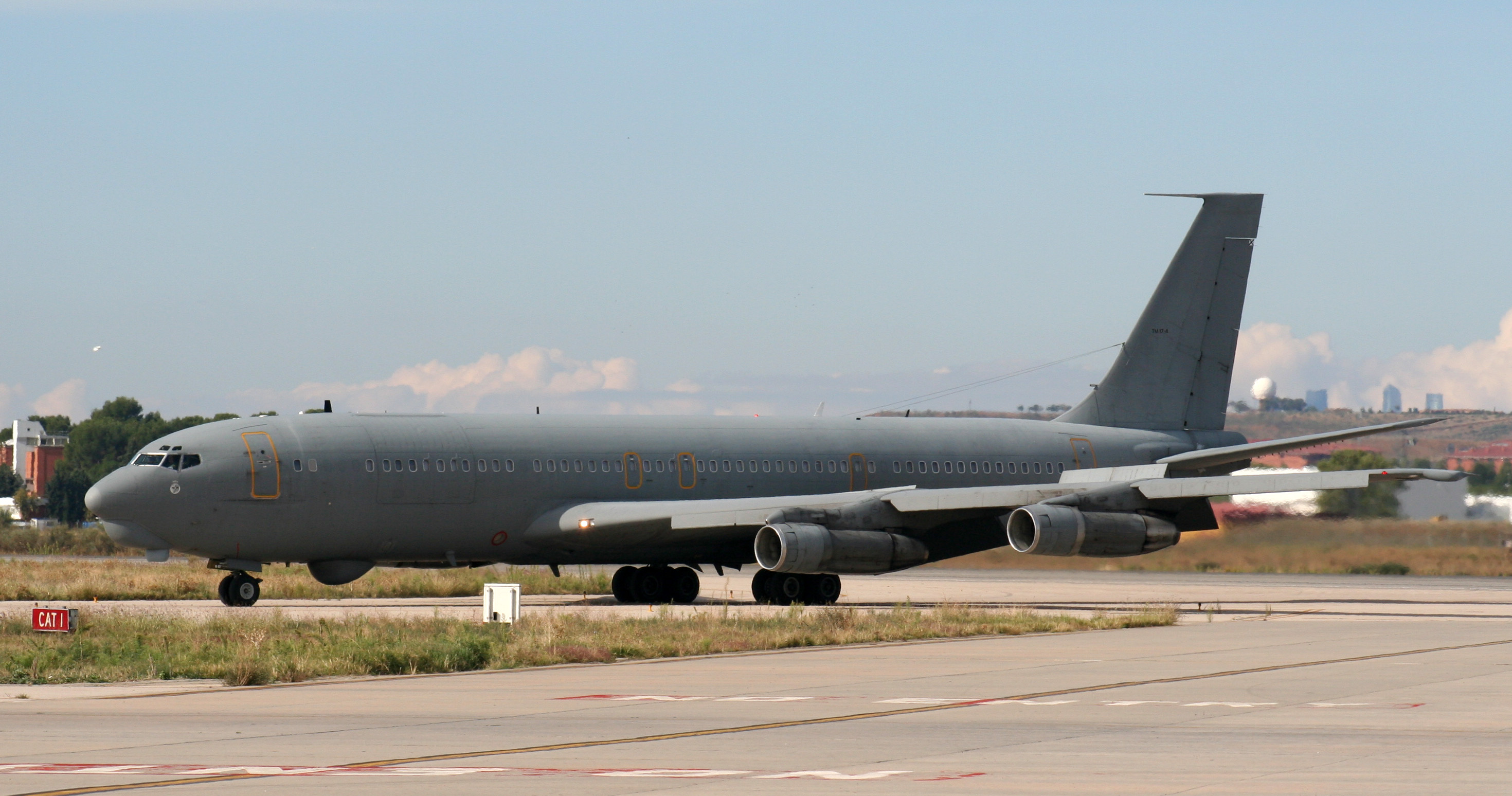 Boeing 707-351C Spain Air Force TM.17-4 / 47-04 C/N 19164 La Reina del Espectro